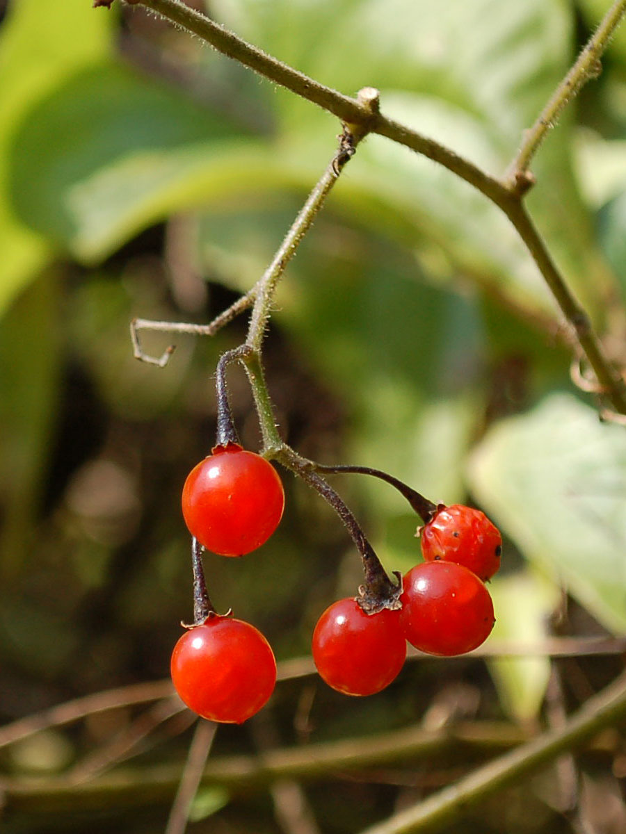 Fruits of Solanum lyratum. Oiso town, Kanagawa pref., Japan.